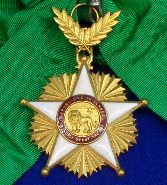 National Order of the Lion, badge of Grand Cross. Senegal. The exhibition of the Tallinn Museum of Orders of Knighthood, Estonia.